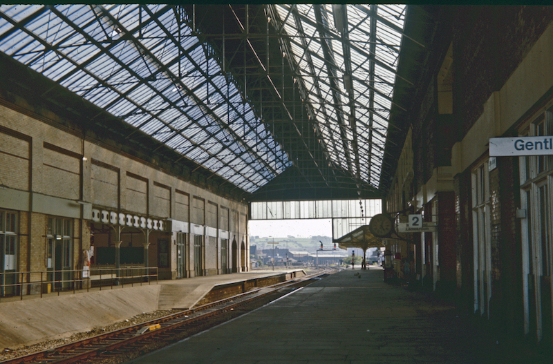 Blackburn Station 1976